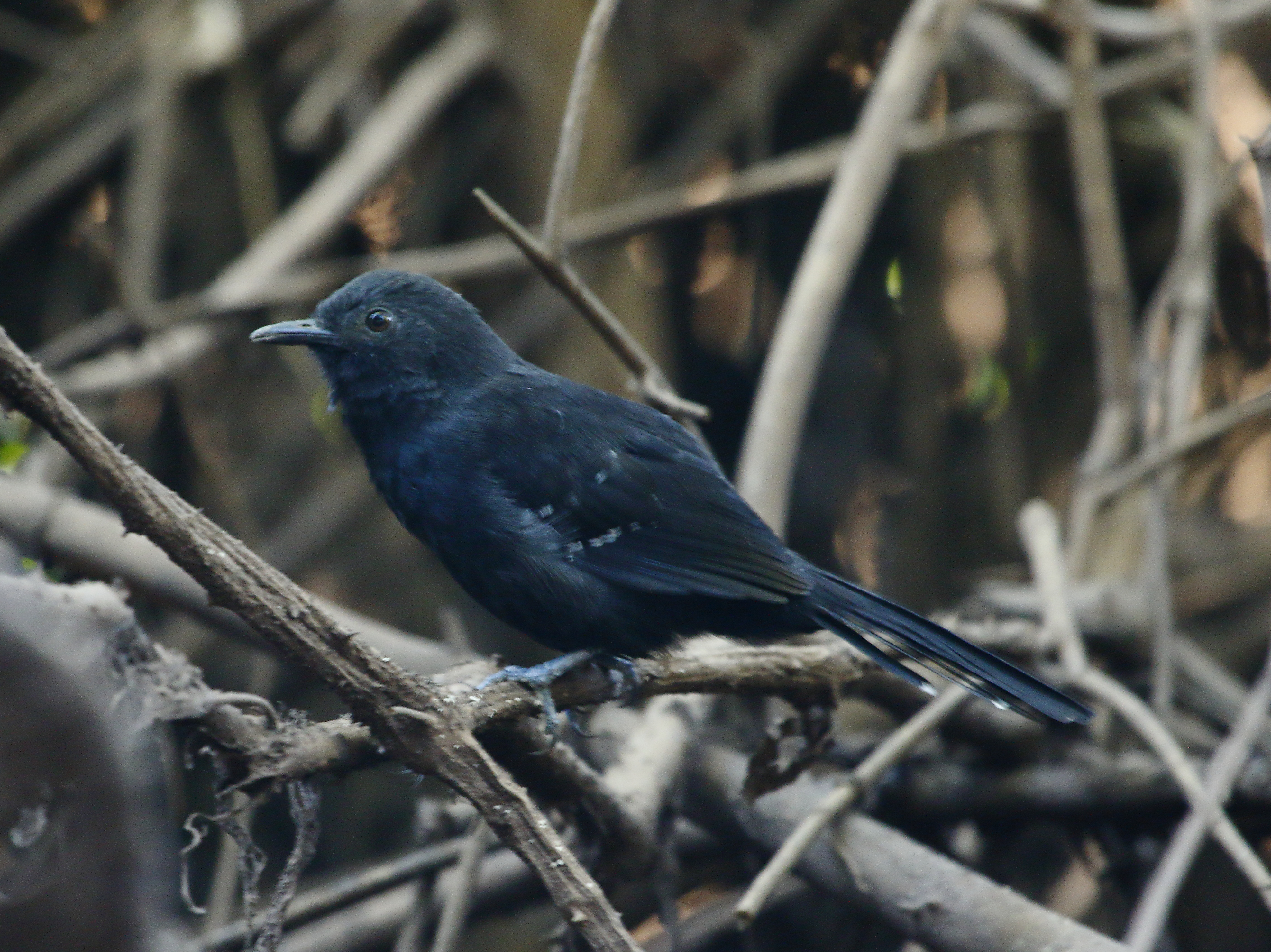 Mato Grosso antbird (male) at Aquidauana - MS - Brazil